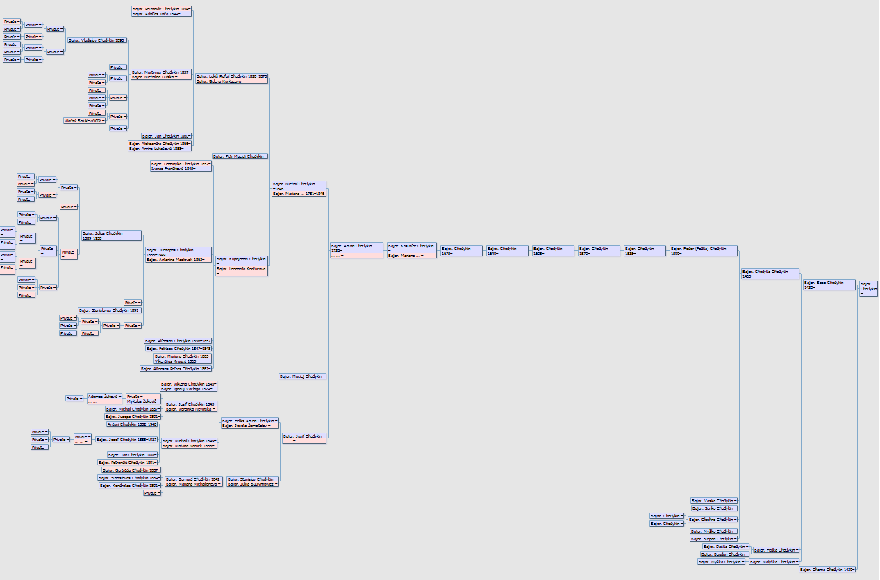 Chodykin family tree